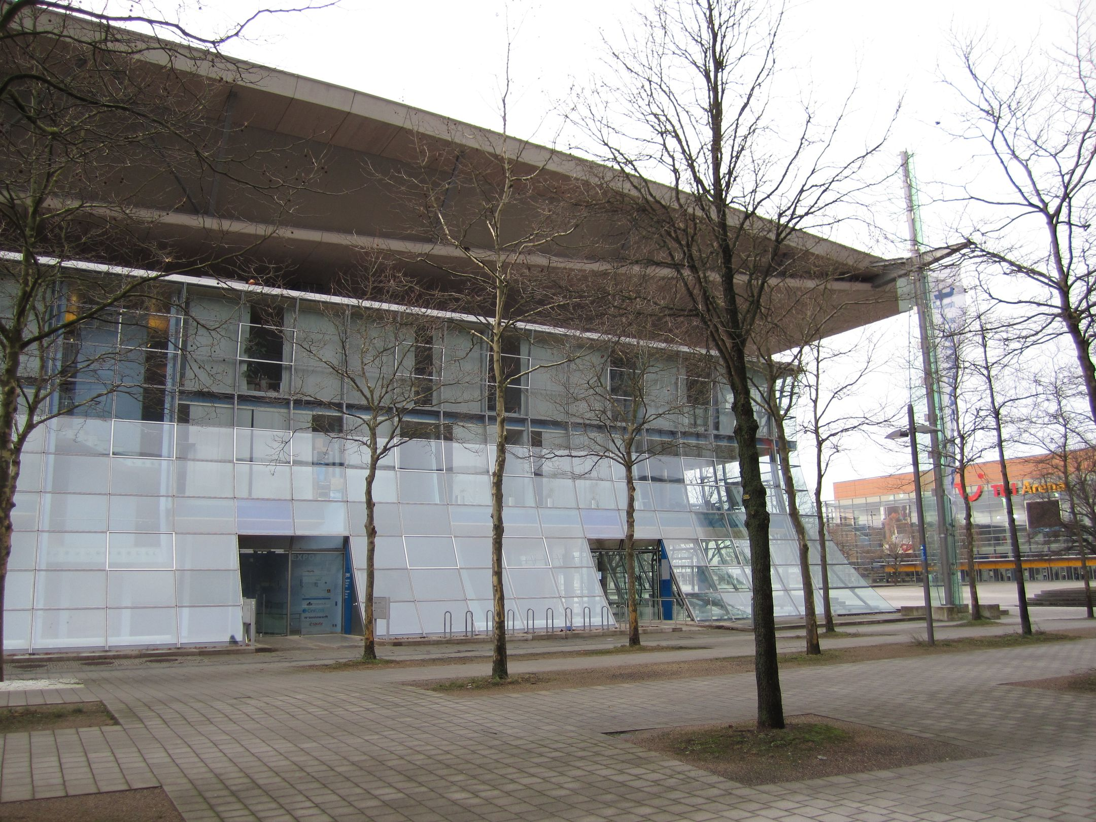 Part of building Expo-Plaza 1, Hanover, Germany.